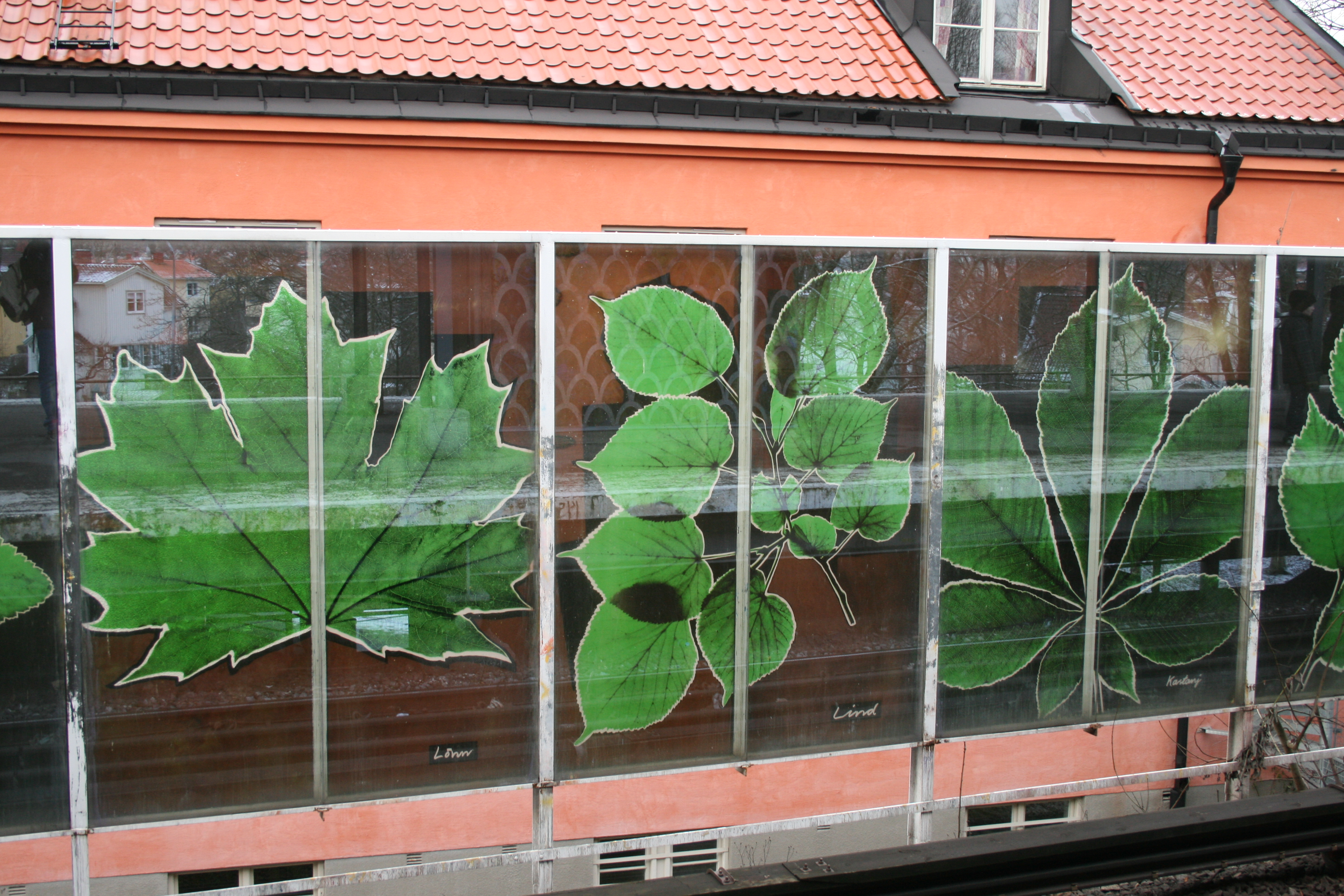 Artwork at the Stockholm metro station Svedmyra